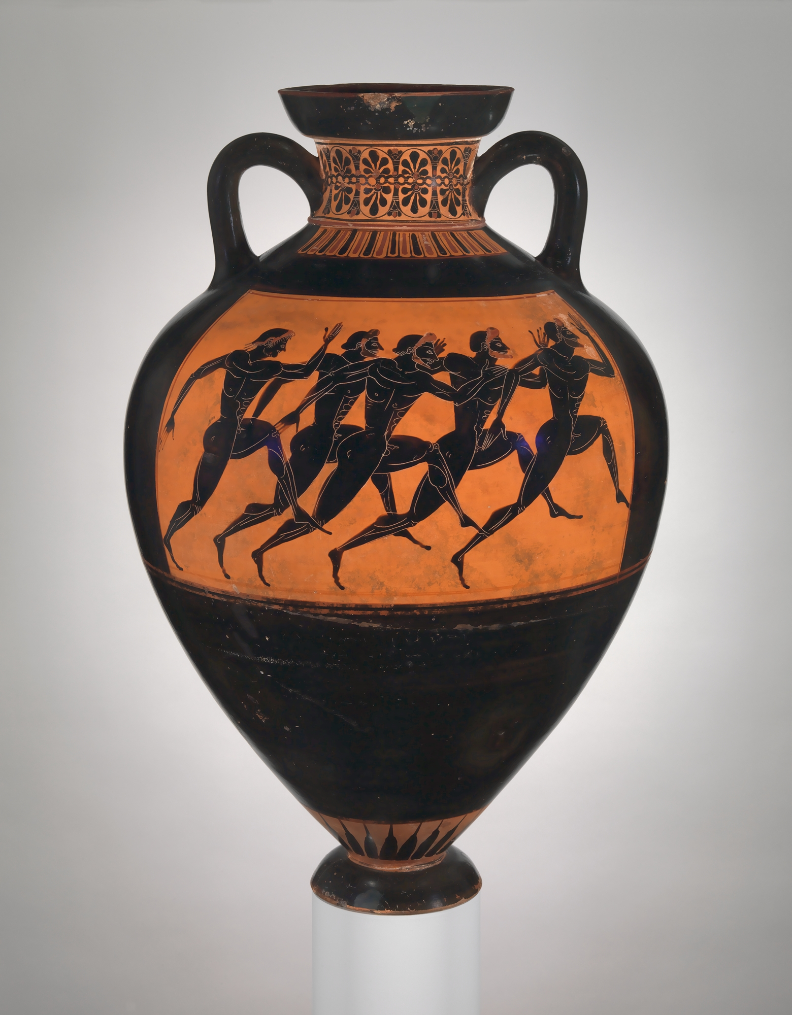 Greek, Attic; Panathenaic prize amphora; Vases